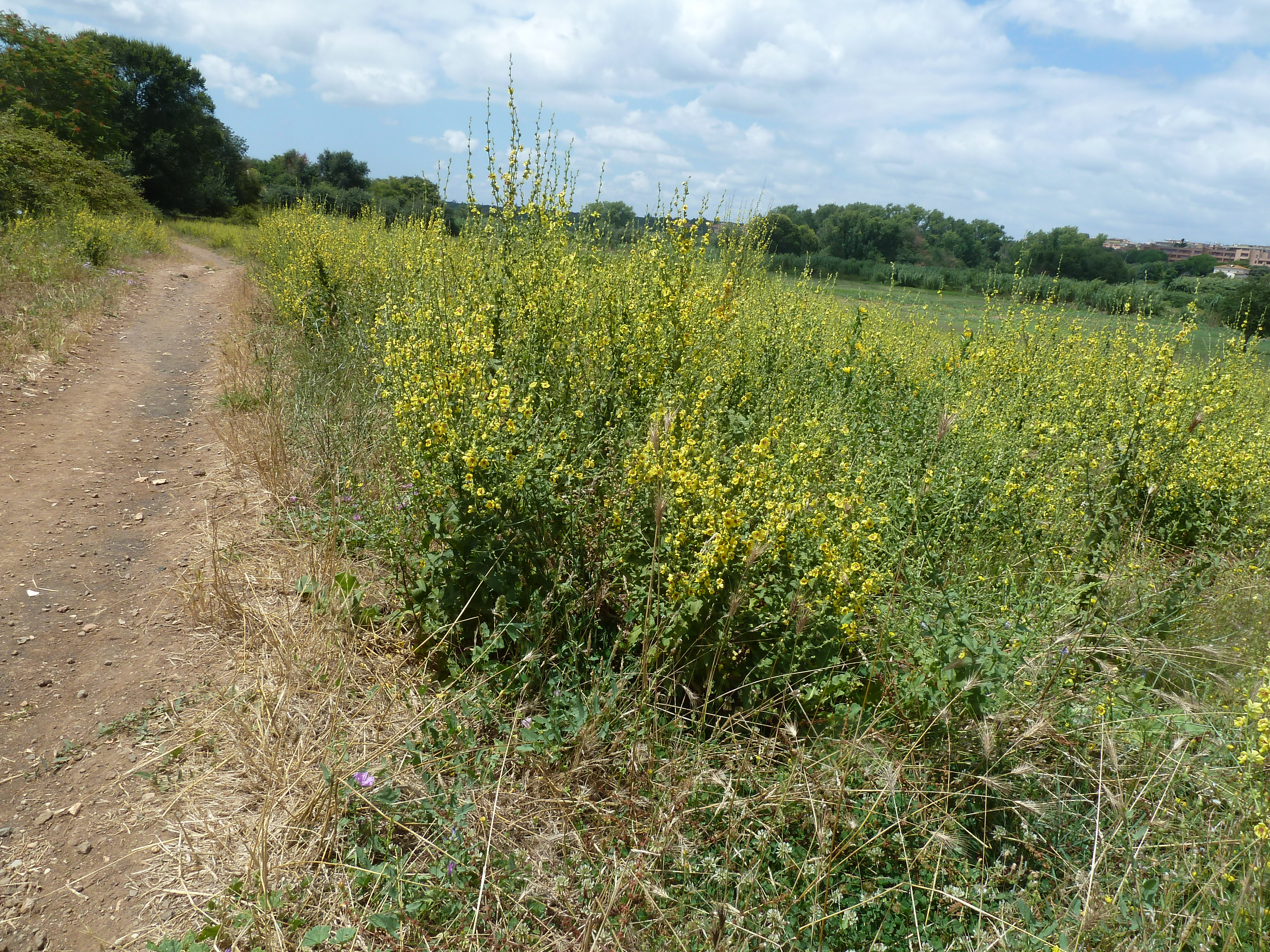 Flora. Parco della Caffarella, Rome, Italy. July